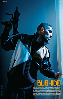 Portrait of Bushido, photographed by foto di matti, photographer based in Berlin and Barcelona. The photo was taken in August 2008 in Berlin and published in Juice magazine. High-resolution versions of this and more photos are available. Please contact me by mail